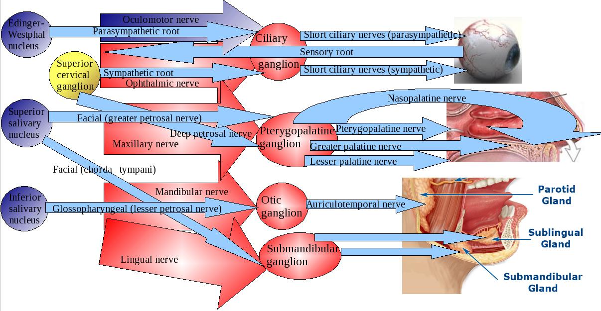 Parasympathetic ganglia of the head and their connections.